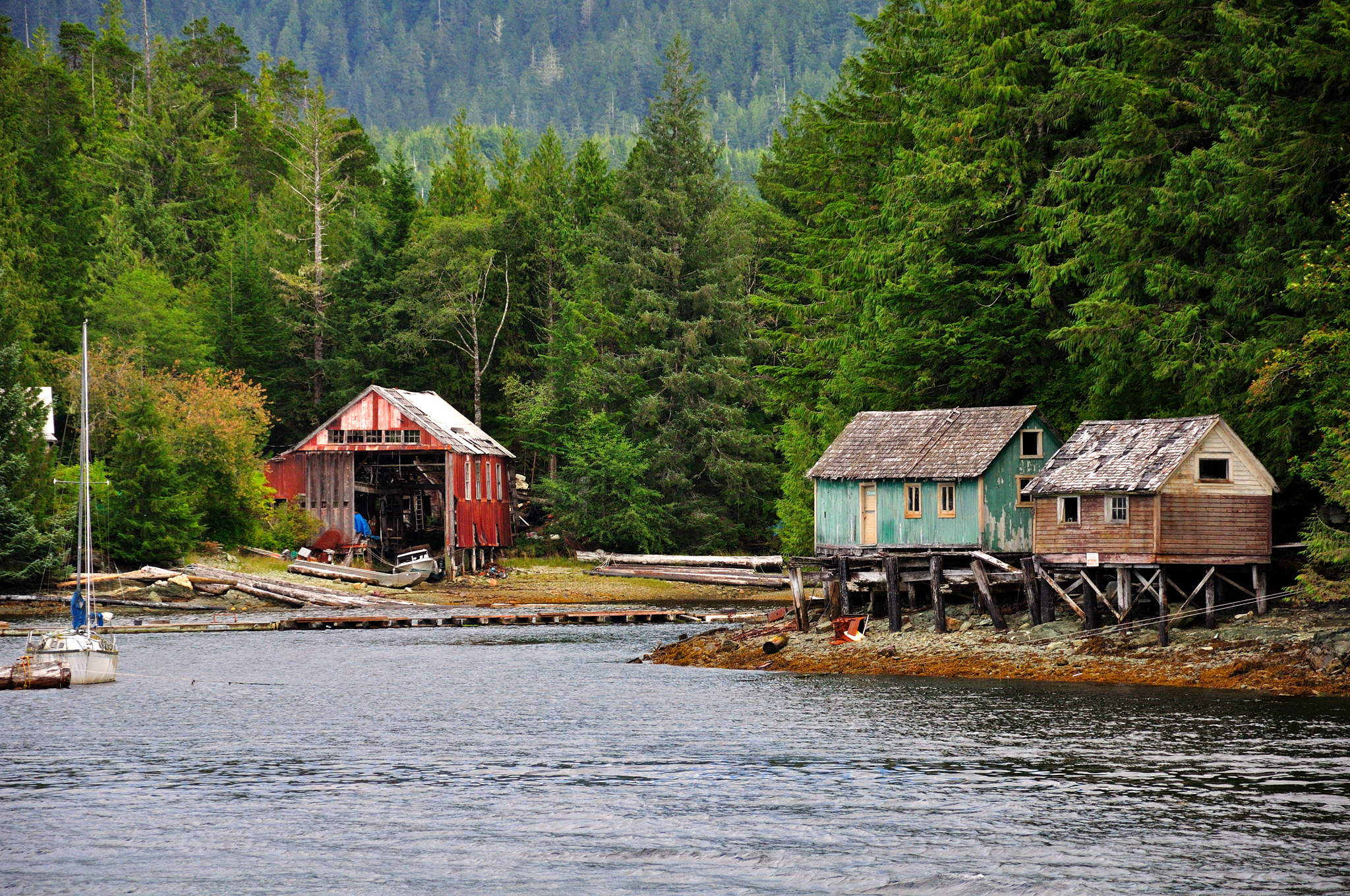 Boat sheds in a cove, Pennock Island, Ketchikan, Alaska.